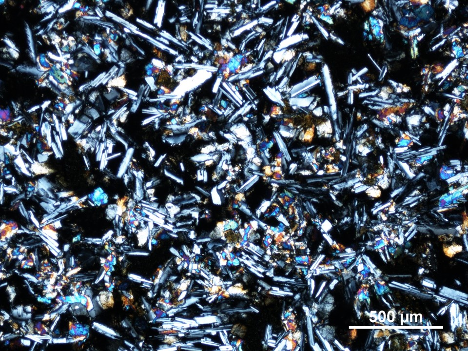 Thin section of Jurassic diabase from South Carolina (DOR211, 1967 ft depth).